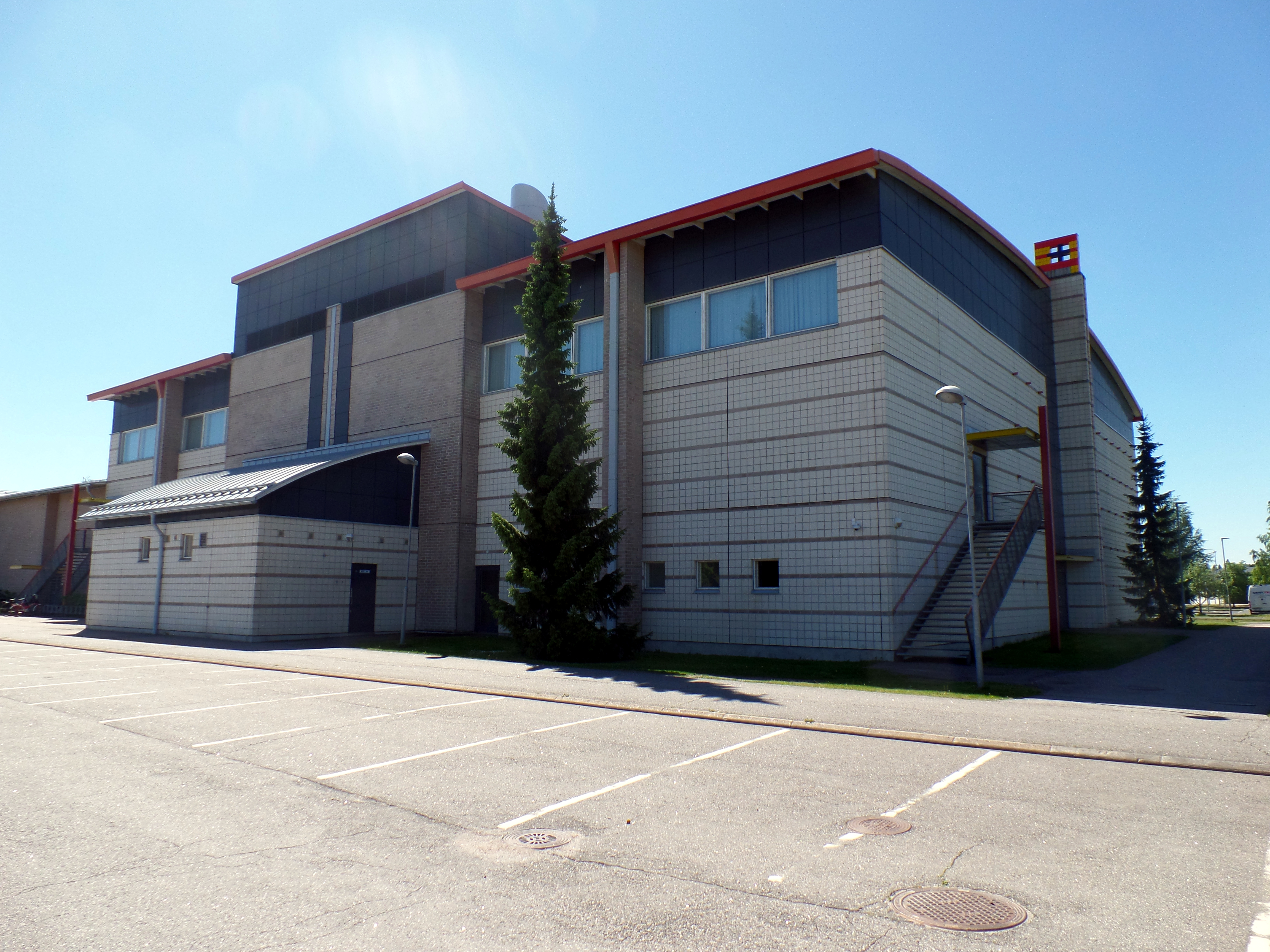 Martinhalli multi-purpose venue in Martti, Hyvinkää.